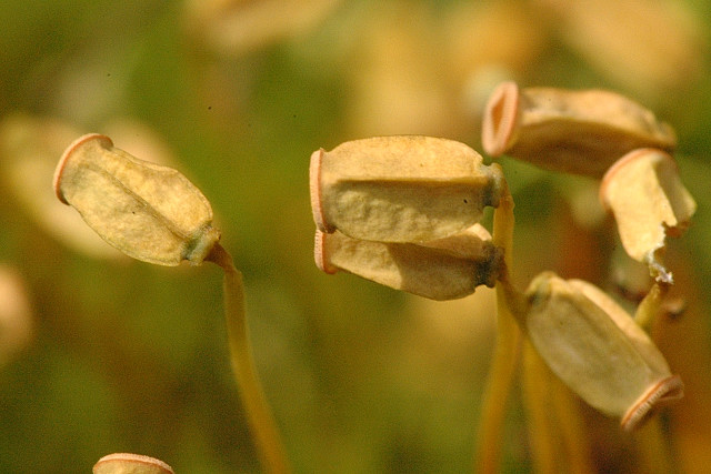 Picture taken in Commanster, Belgian High Ardennes . Species: Polytrichum commune female